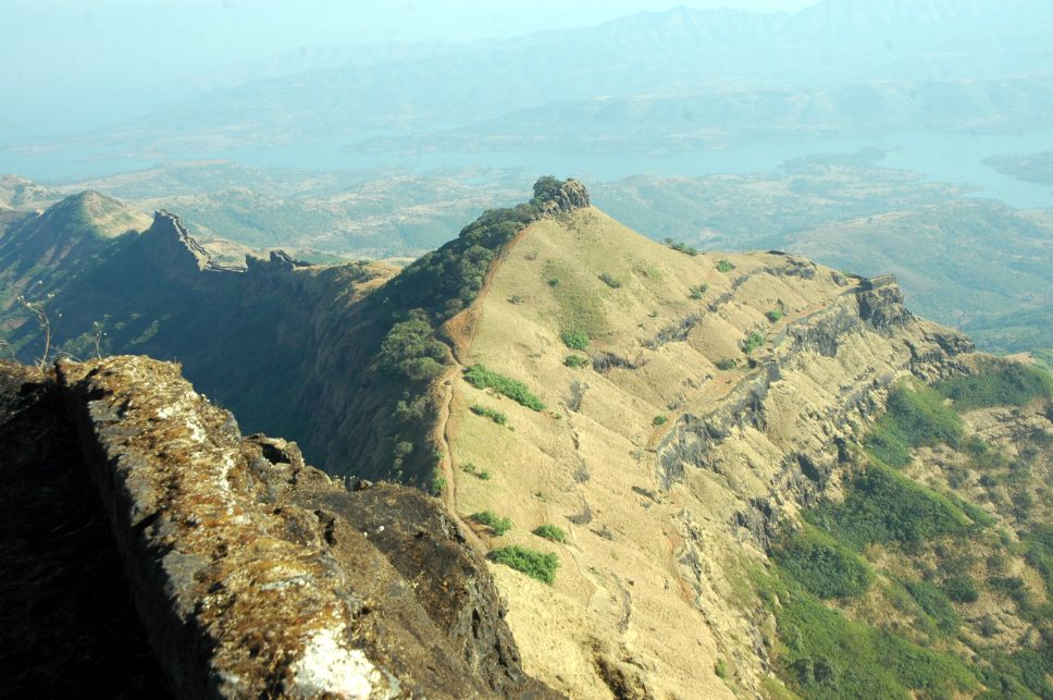 View of the Suvela Machi fortification from Balekilla, Rajgad, Maharashtra, India